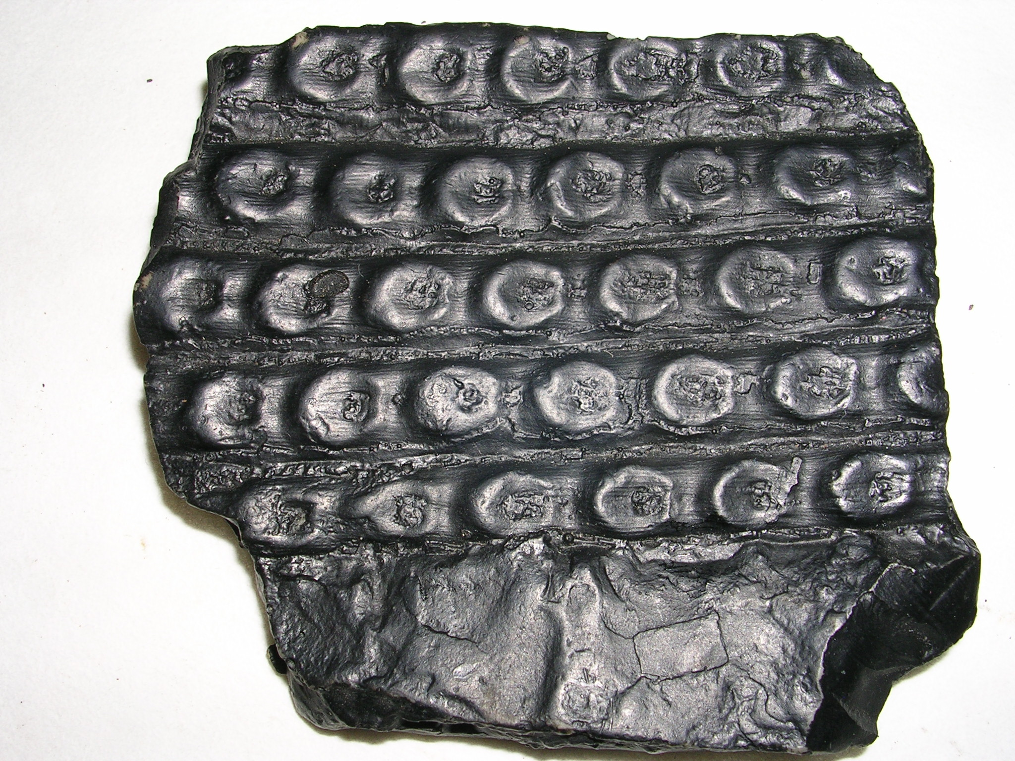 Replica of Sigillaria sp. in a laboratory of practices of the Faculty of Sciences of the University of Corunna.